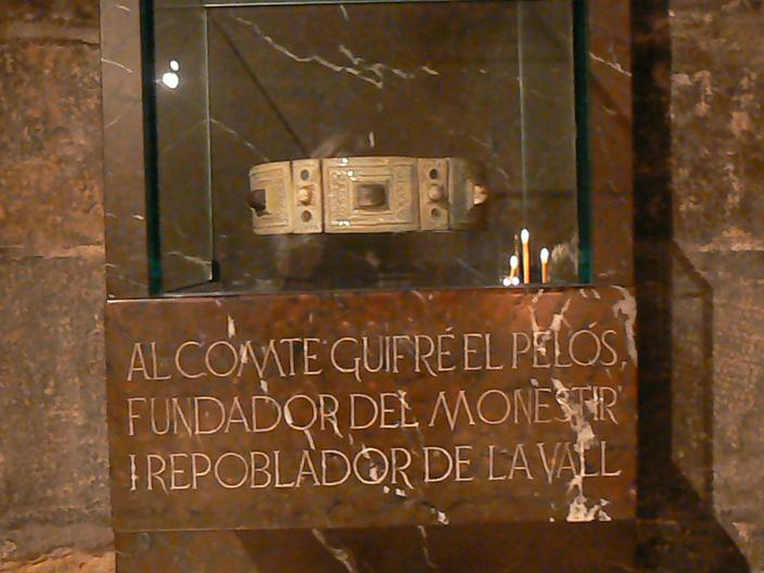 Wilfred the Hairy